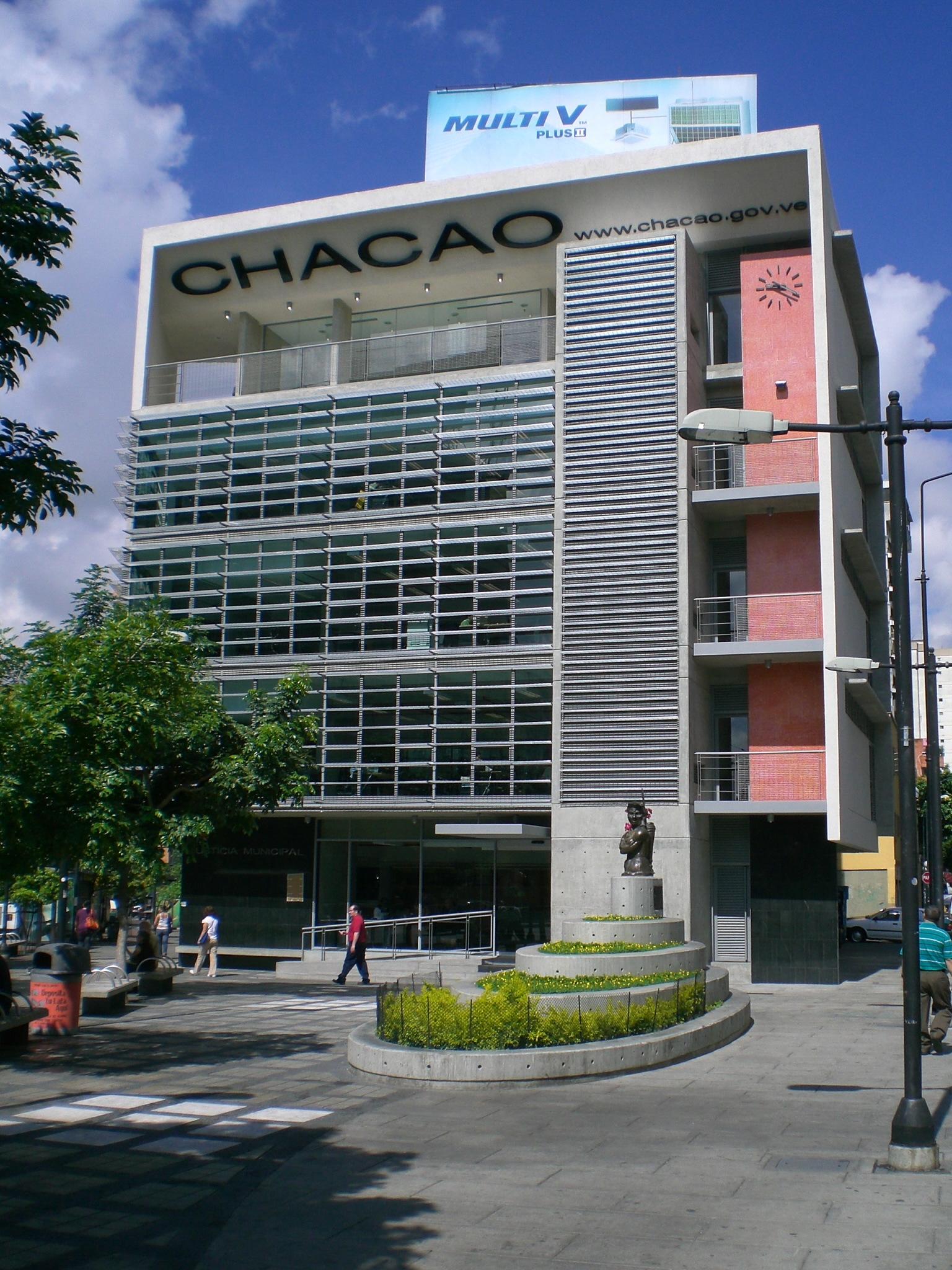 Seat of the Municipal Justice of Chacao, Caracas.